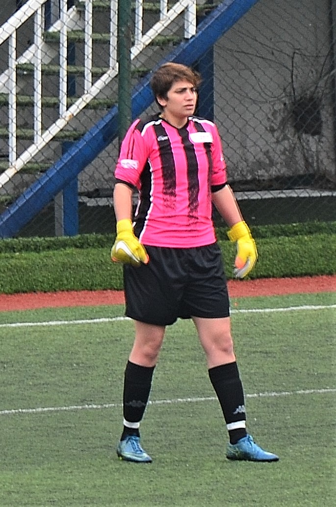 Duygu Yılmaz playing for Ataşejir Belediyespor in the 2015-16 season